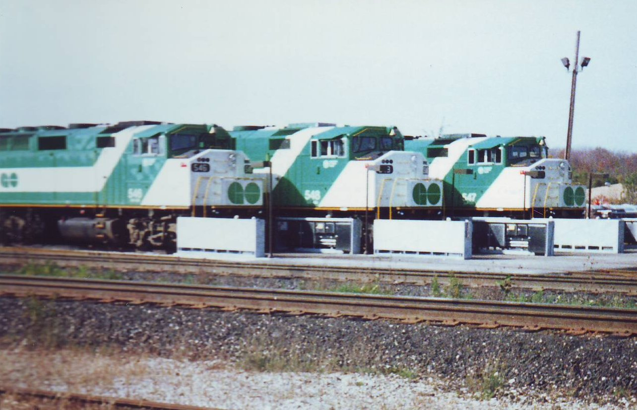 GO Transit locomotives #546, #547 and #548 parked in the long-term storage yard in Campbellville, Ontario, which served Milton line trains until 2007. Photo taken approximately 1990.